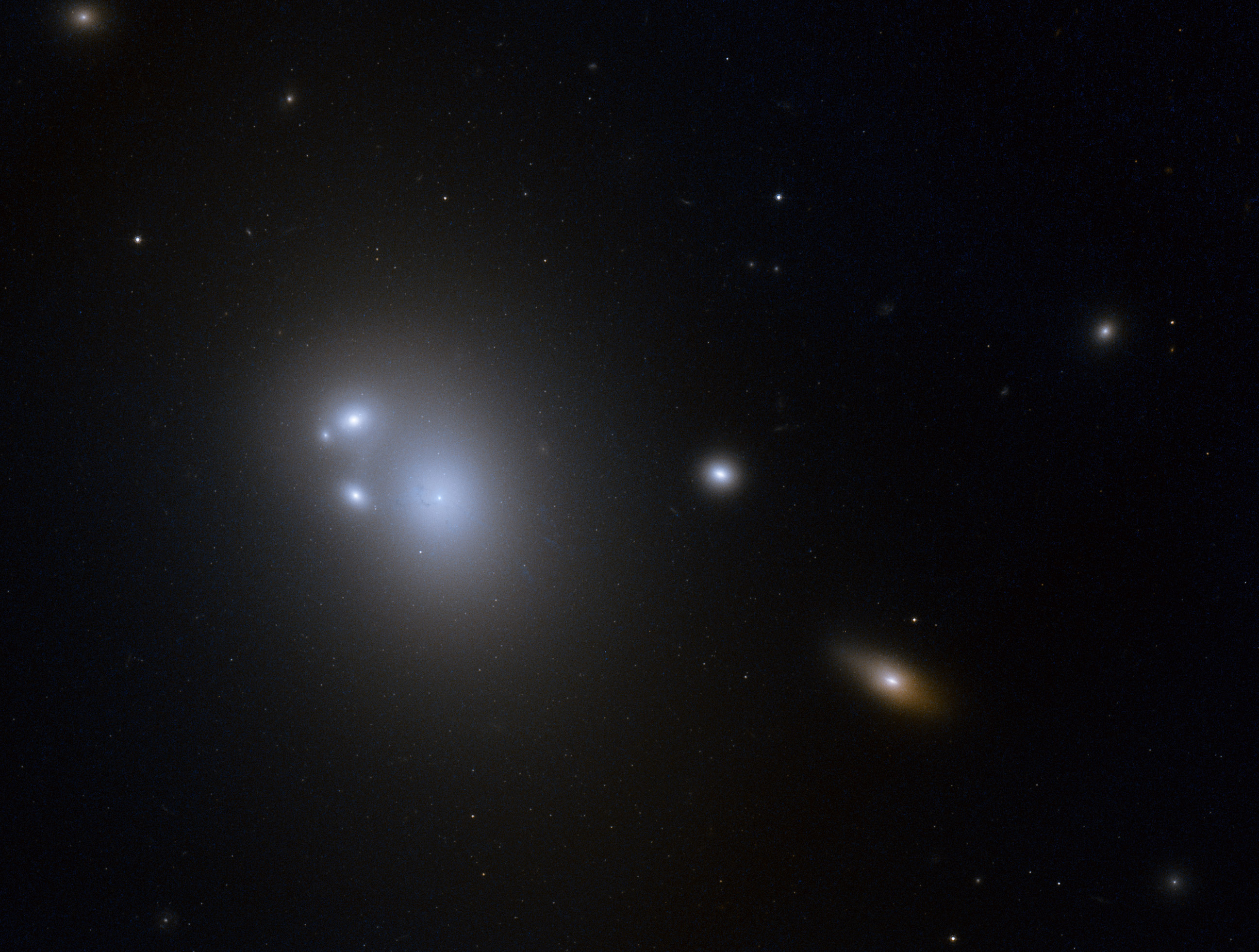 Something challenging about this image is that FR656N had bright lamp artifacts covering the majority of the image that I had to process away. The reflection, not the processing, caused the galaxy on the lower right to look more red on one side. It’s not really like that. HST_9293_05_ACS_WFC_F814W_sci HST_9293_05_ACS_WFC_FR656N_sci